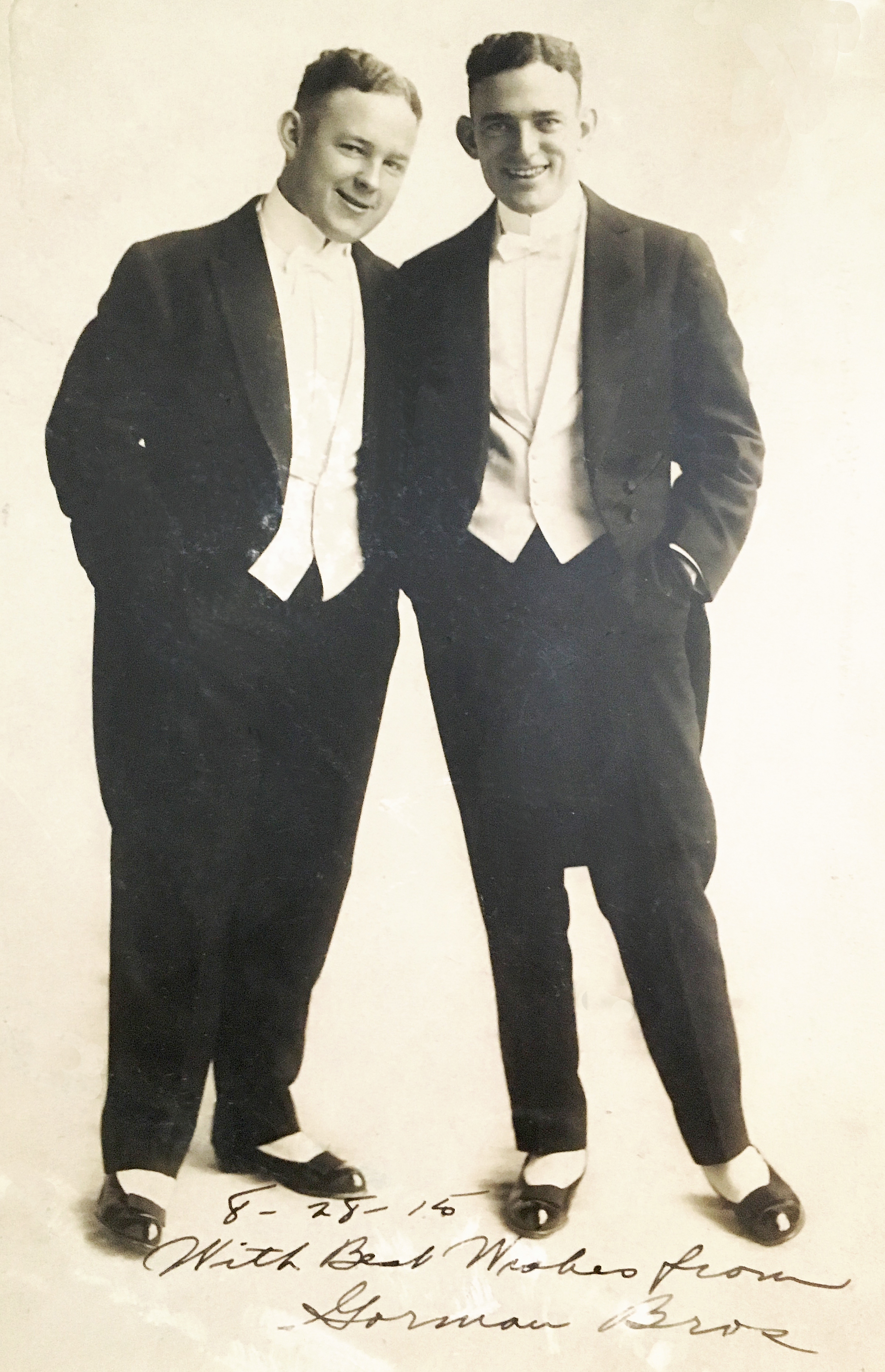 Eddie and Billie Gorman